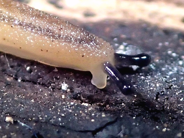 A carnivorous terrestrial slug '"Granulilimax fuscicornis Minato, 1989" (Gastropoda: Systellommatophora: Rathouisiidae) from Anan, Tokushima, Japan, showing the bifid lower tentacle.